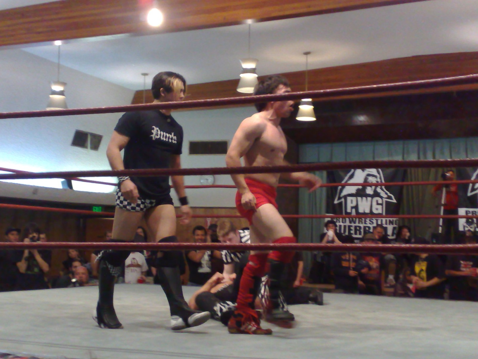 TJ Perkins (left) Hook Bomberry at Pro Wrestling Guerrilla's Scared Straight show in March 2008.